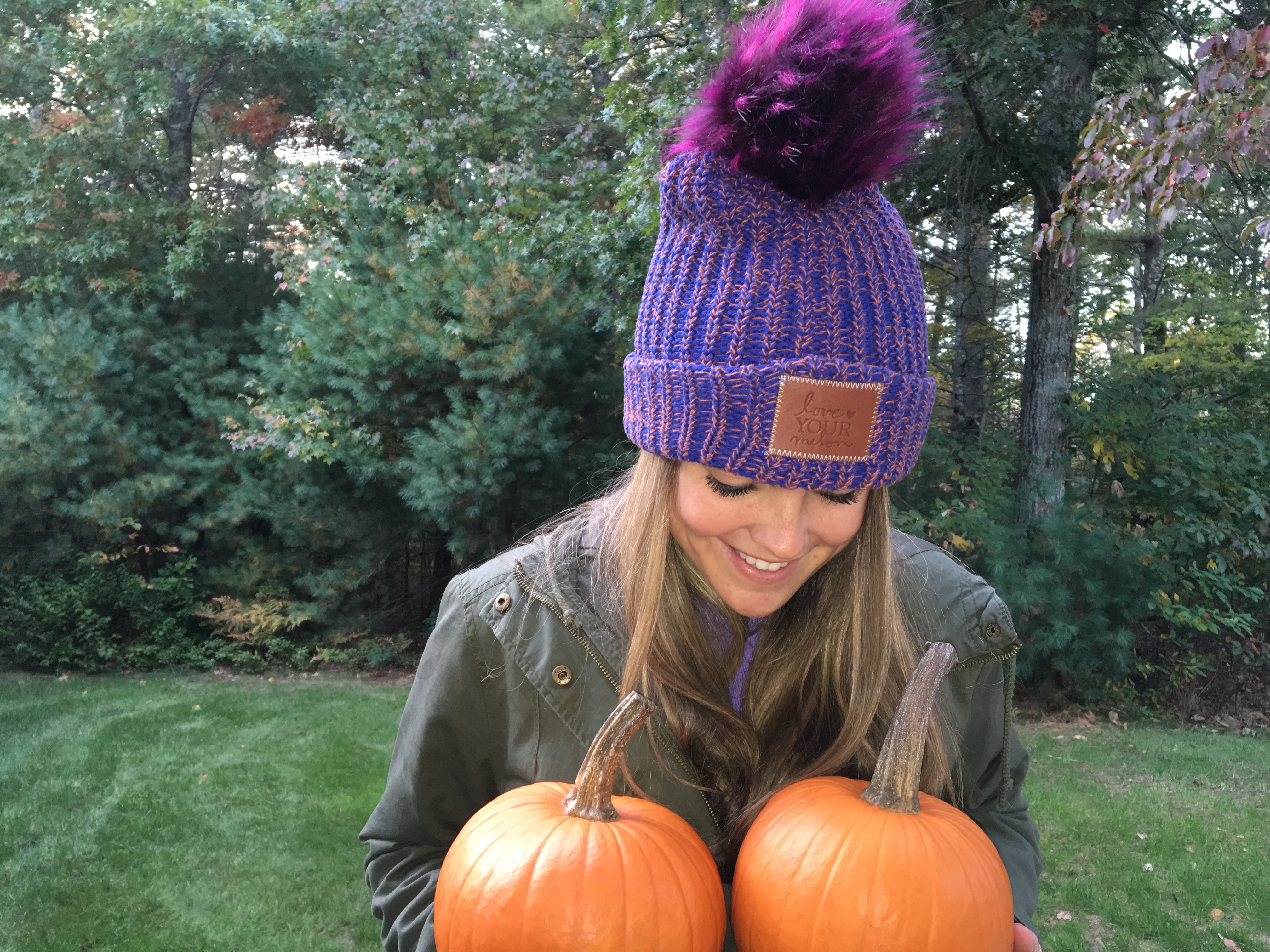 This is an example of a beanie this company sells. This is a picture of me and my hat and everything in this photo i own.